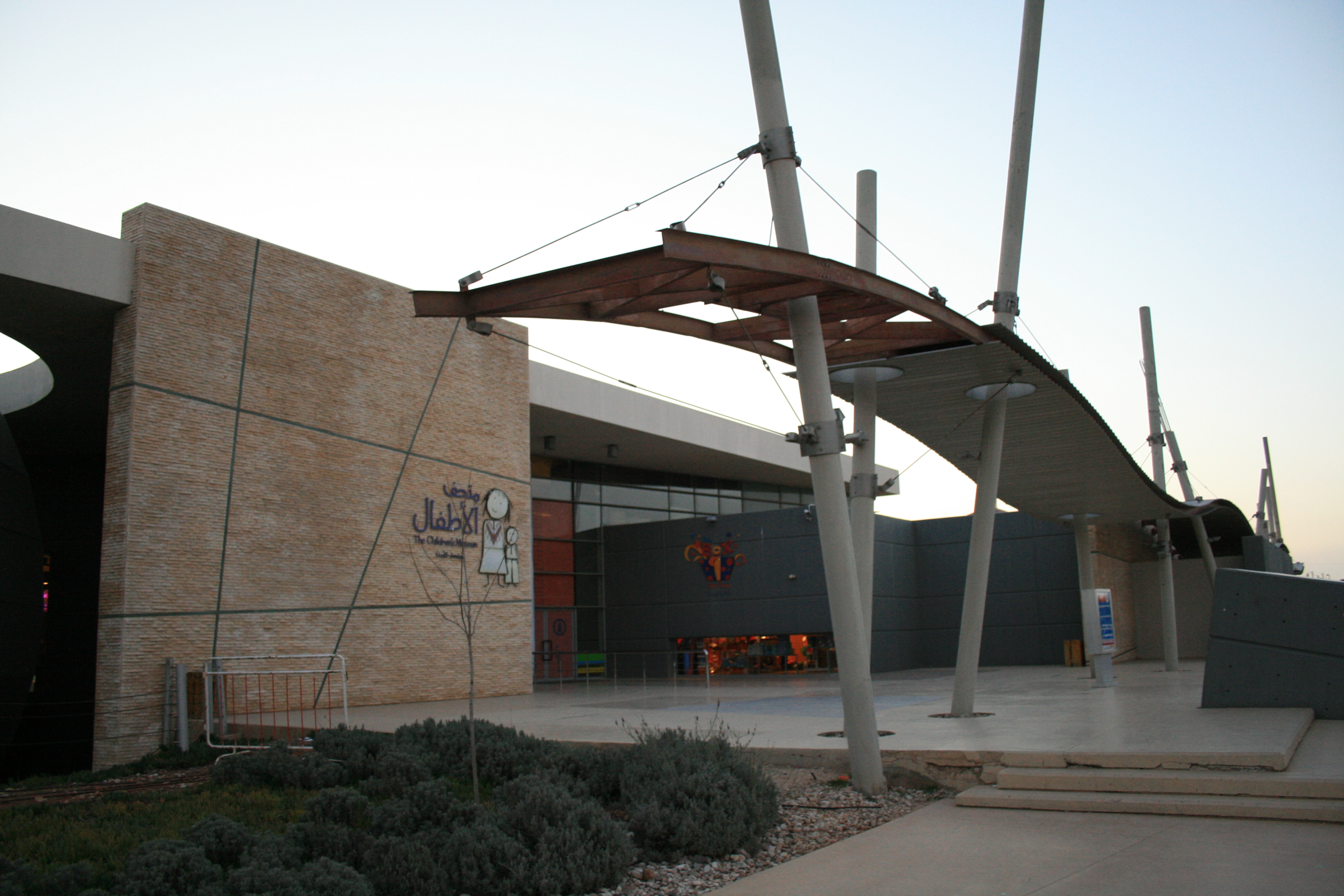 Children Museum at Al Hussein Park, Amman, Jordan